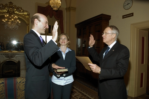 Senator Harry Reid swears in Gregory B. Jaczko as a commissioner of the Nuclear Regulatory Commission